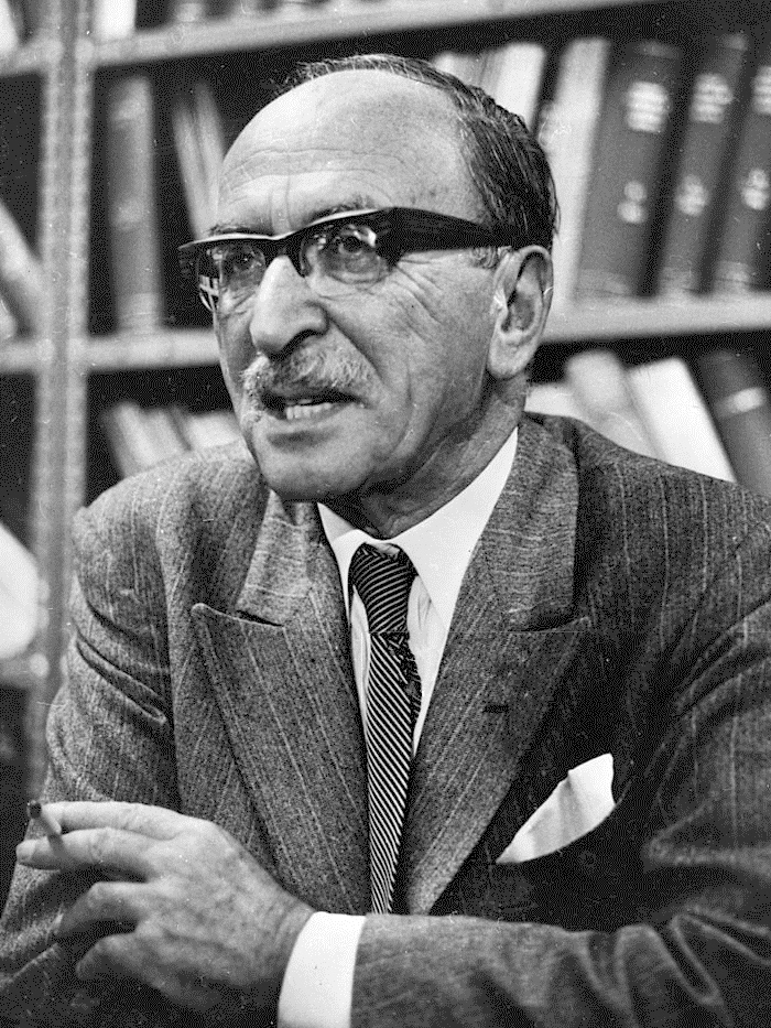 1971 Press Photo Professor Dennis Gabor 1971 Nobel Peace Prize Winner